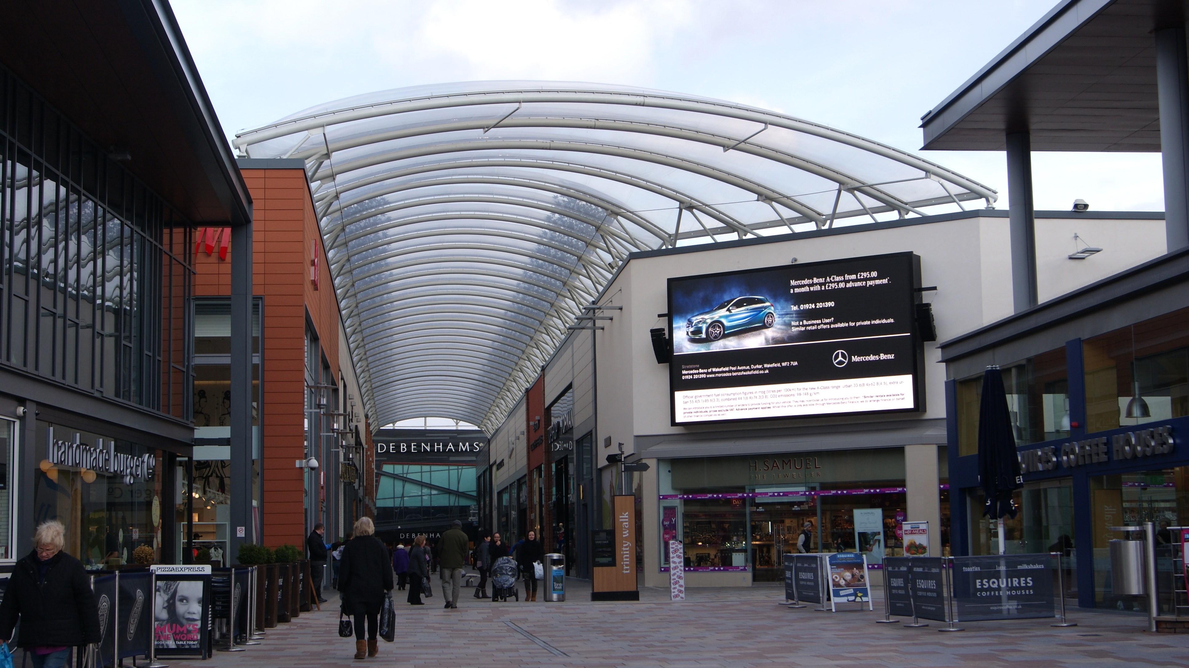 Trinity Walk in Wakefield, West Yorkshire. Taken on the afternoon of Sunday the 10th of March 2013.